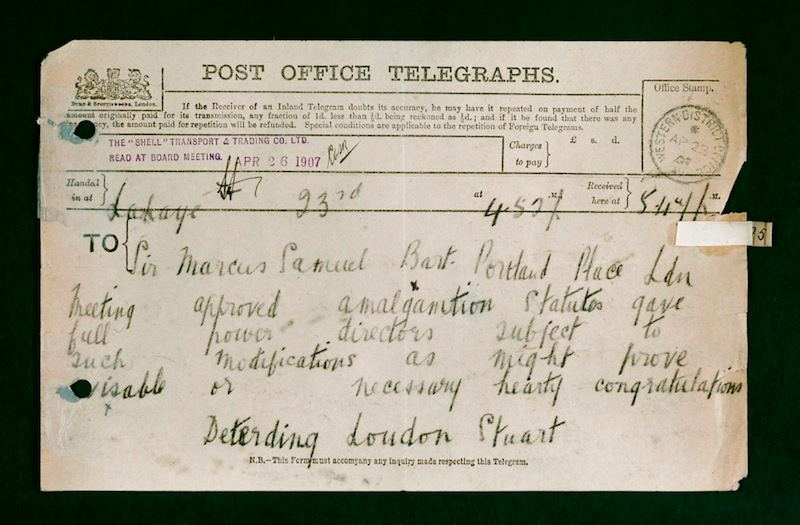 "During the Royal Dutch merger in 1907, Sir Marcus Samuel received this congratulations telegram from Henri Deterding."